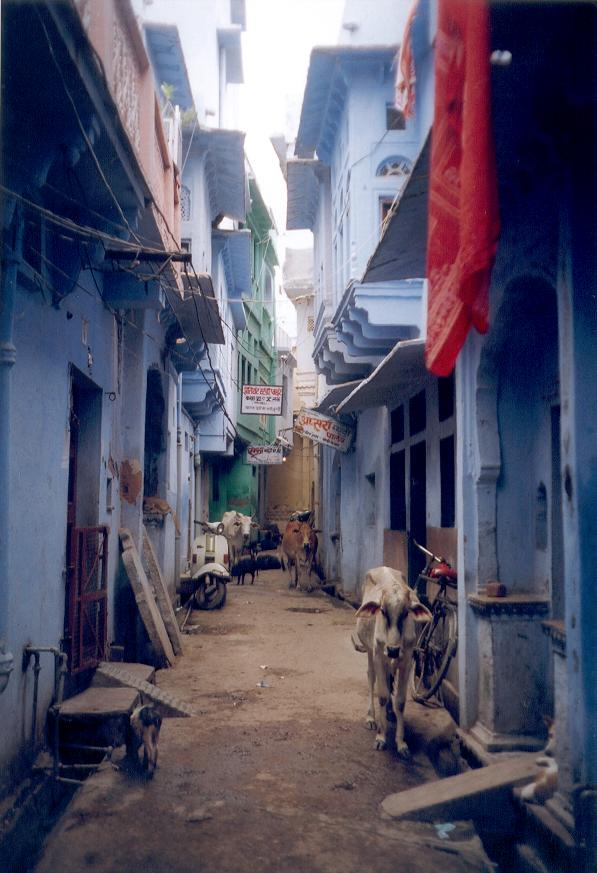 An alley in Bundi, Rajasthan, India.